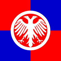 Flag of the city and municipality of Despotovac in Serbia